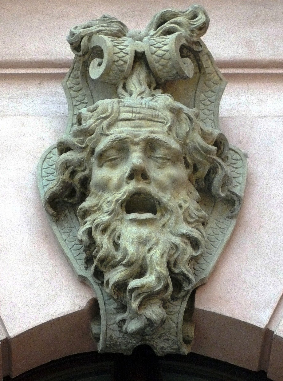 Zeughaus (arsenal) in Berlin-Mitte, actual "Deutsches Historisches Museum" (German Historic Museum). Sculpture "Head of a dying warrior" by Andreas Schlüter (1659-1714).